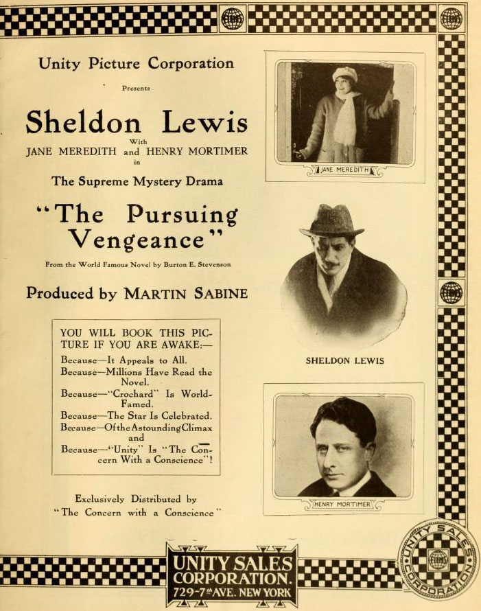 Advertisement in The Moving Picture World for the American film The Pursuing Vengeance (1916) with Jane Meredith, Sheldon Lewis, and Henry Mortimer.